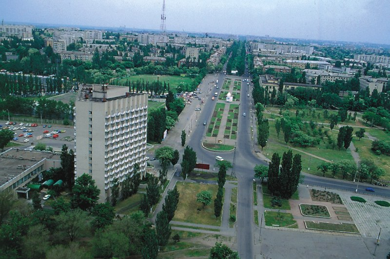 Prospekt Lenina in Mykolaiv